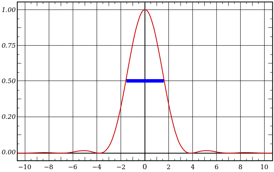 A graph of the Airy pattern on the interval : :: *k is the wavenumber, in m −1 *a is the radius of the aperture *θ is the angle of observation. *I0 is the maximum intensity. *J1 is the order one Bessel function of the first kind.